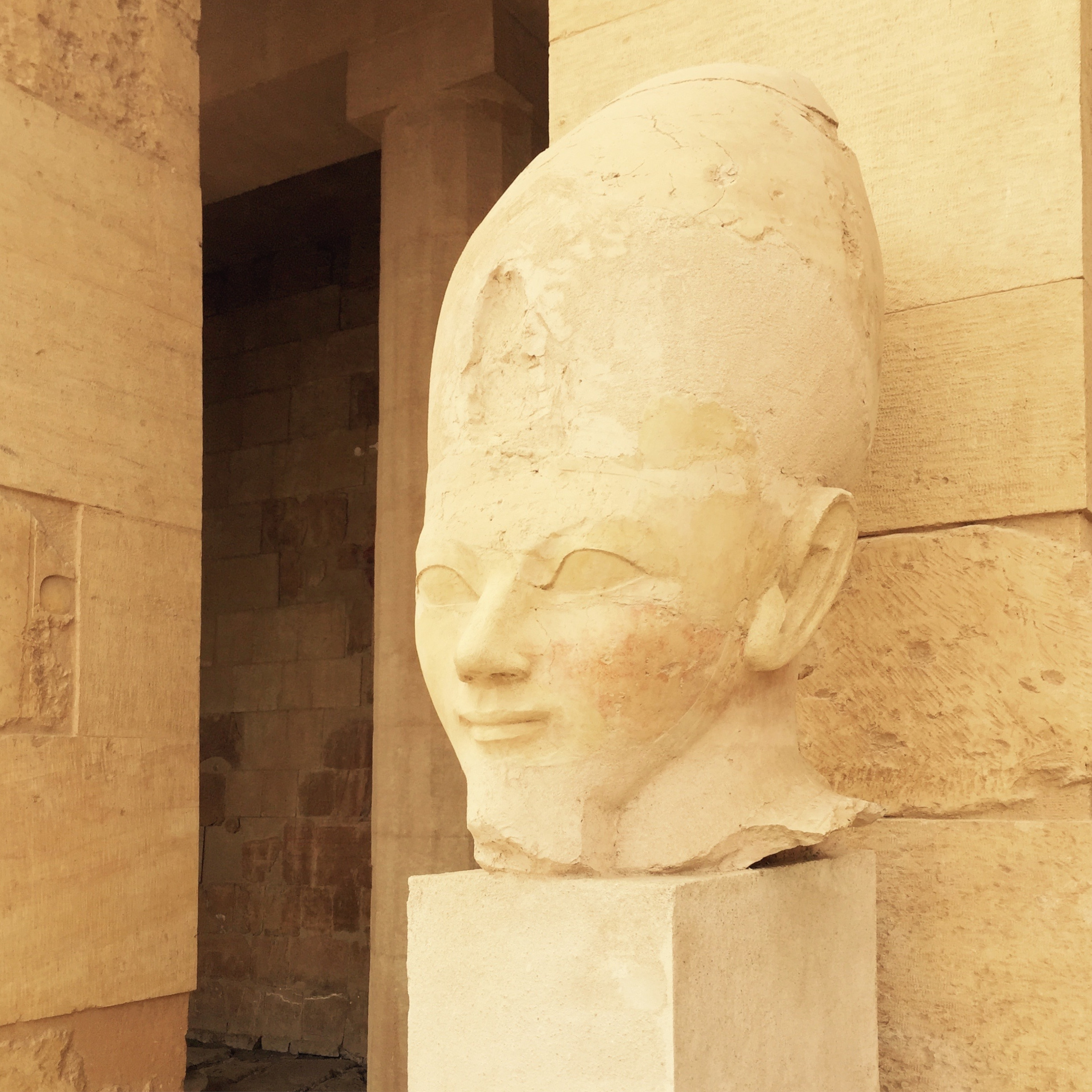 hatshepsut